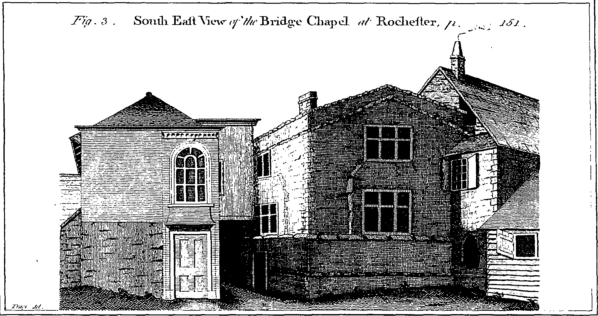 Fleuron from book: Custumale Roffense, from the original manuscript in the archives of the Dean and Chapter of Rochester: to which are added, memorials of that Cathedral Church; and some account of the remains of churches, chapels, chantries, etc. whose Instruments of Foundation, and Endowment, are for the most part contained in the Registrum Roffense; with Divers Curious Pieces of Ecclesiastical Antiquity, Hitherto unnoticed, in the said Diocese. The whole intended as a supplement to that work. Illustrated with copper plates, from accurate drawings; Taken principally under the Editor's Inspection. By John Thorpe, Esq. M. A. F. S. A.